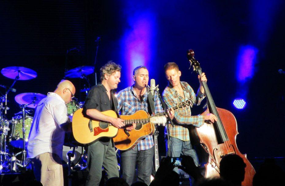 Barenaked Ladies at Jones Beach in August 2012